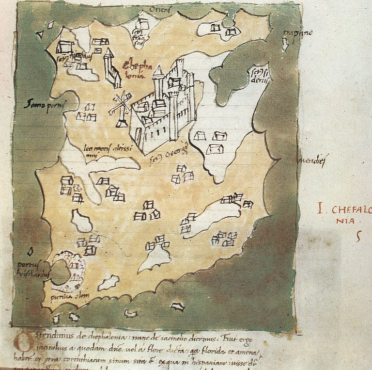 Cristoforo Buondelmonti, Liber Insularum Archipelagi (1420), Kefalonia island, Ionian Sea